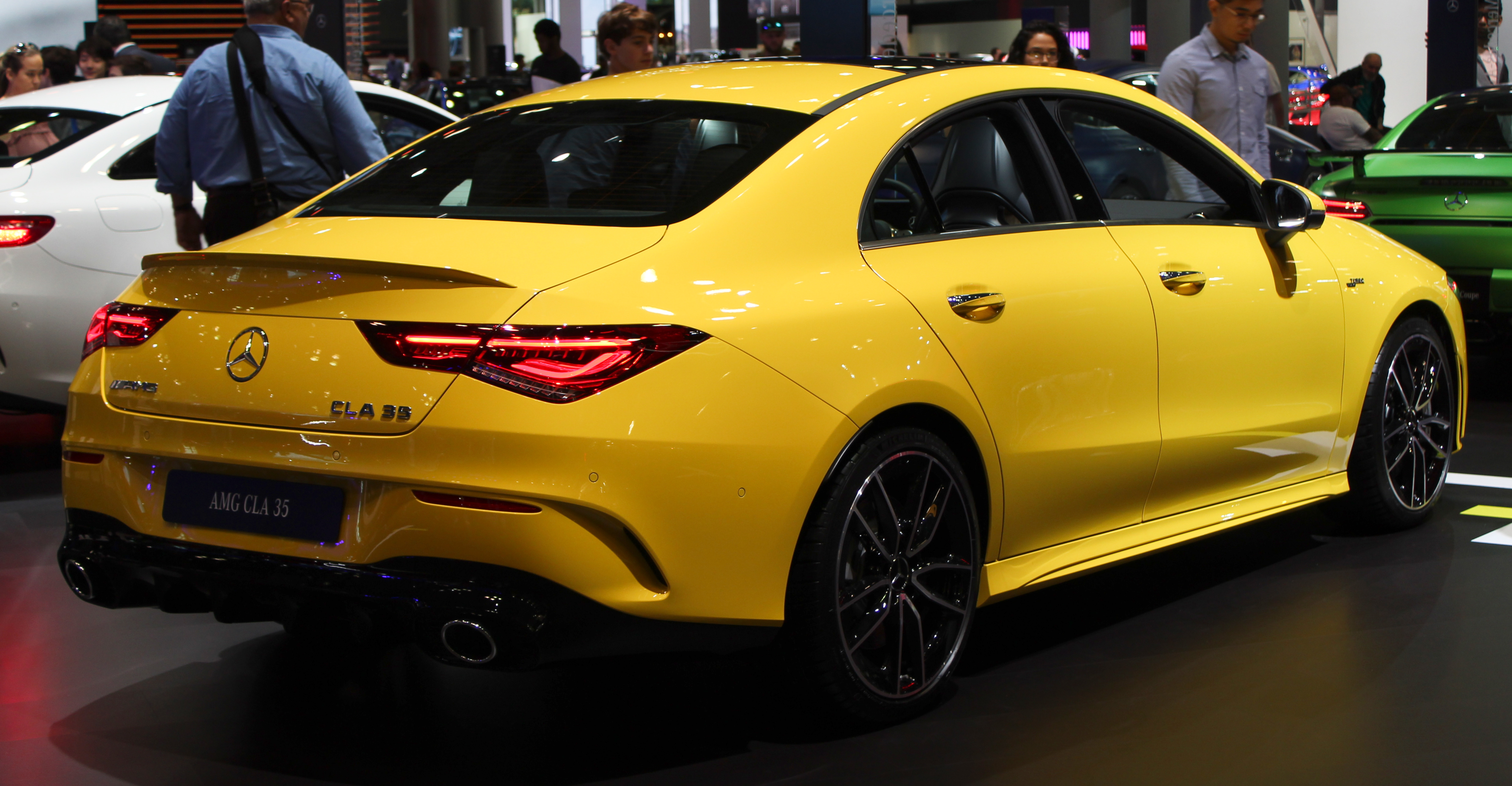 A 2020 Mercedes-AMG CLA 35 photographed during the 2019 New York International Auto Show, in Hudson Yards, Manhattan, NYC